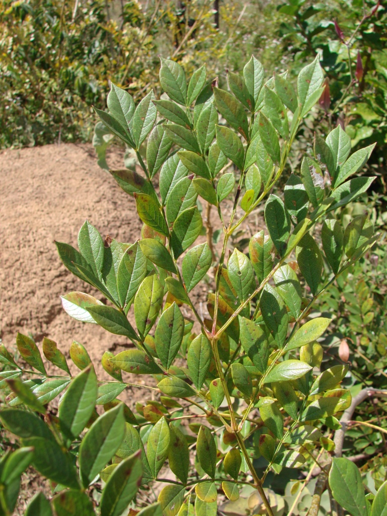 Leaves of Jacaranda macrantha - BIGNONIACEAE - Chapada Imperial - Distrito Federal - Brasil.